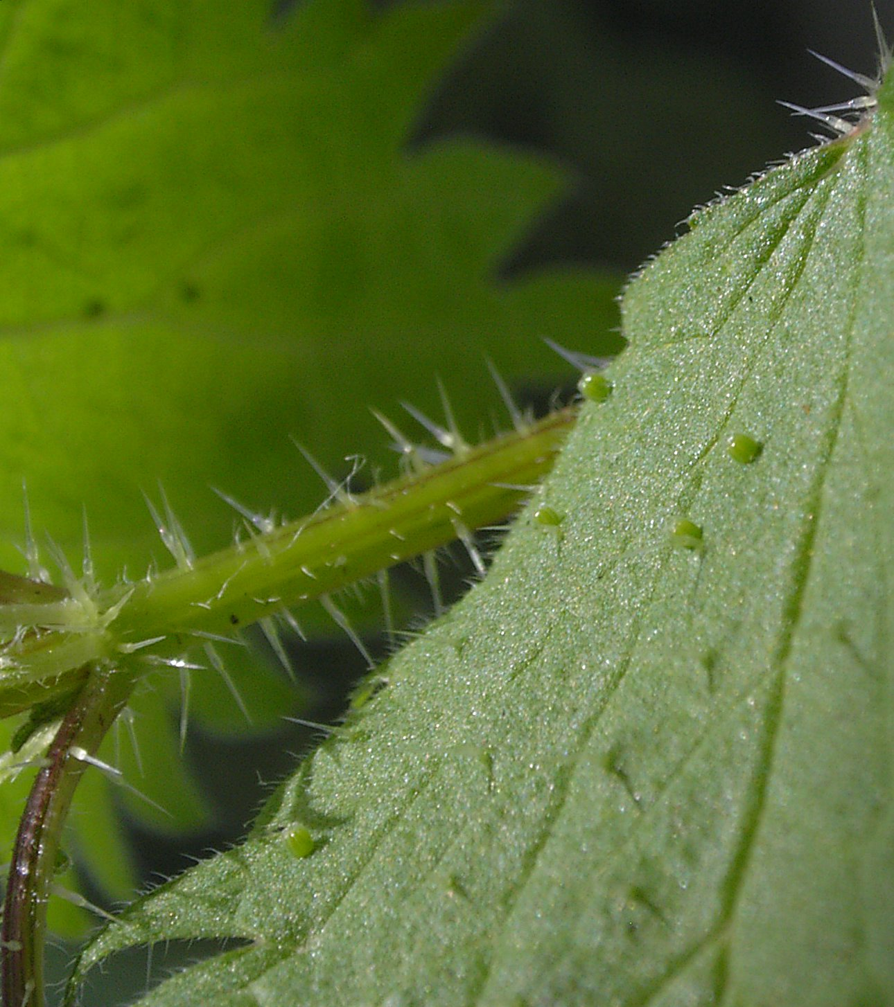 Butterfly Vulcan (Vanessa atalanta), eggs on the leaf surface of a nettle plant.